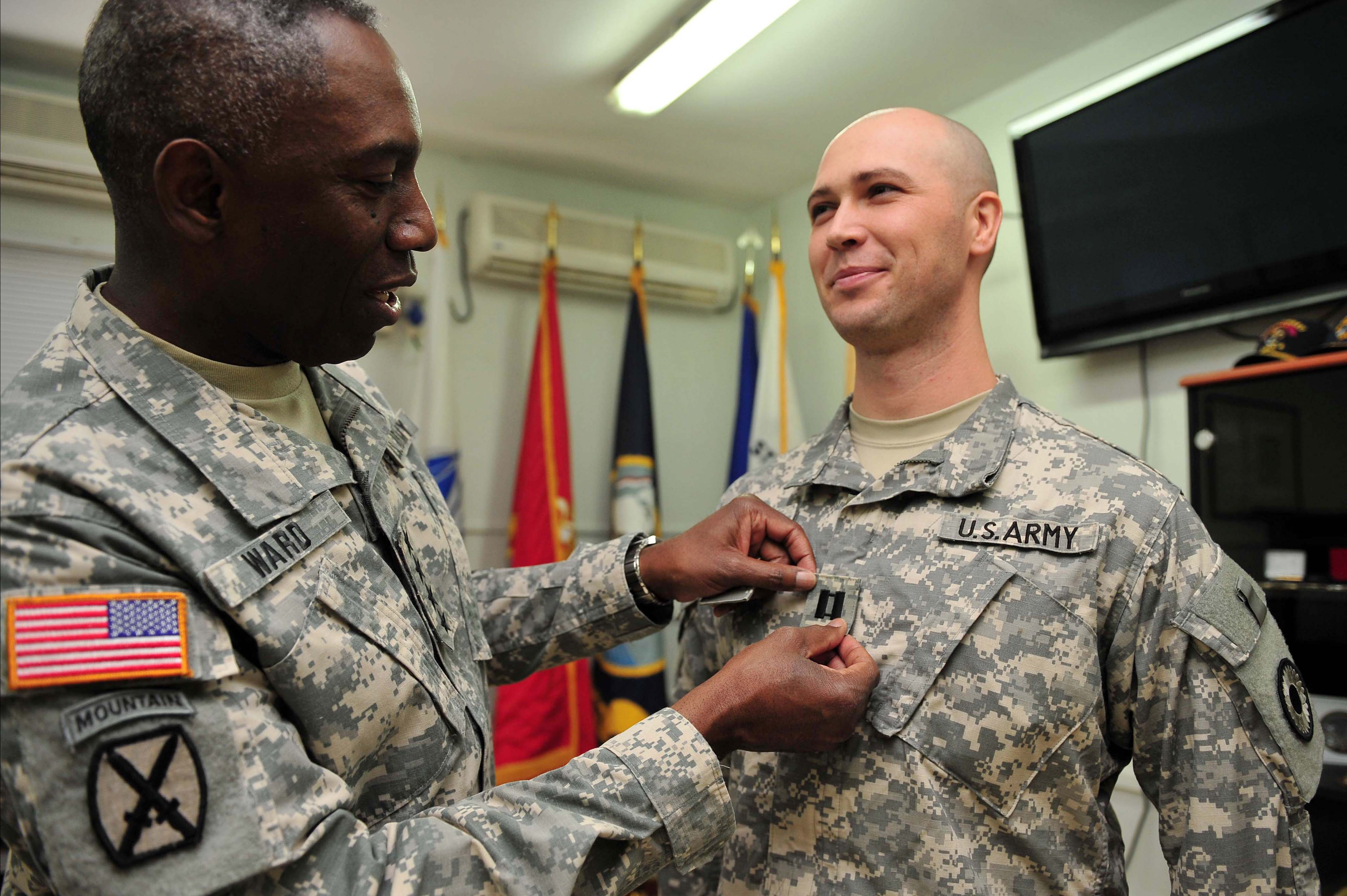 Gen. Kip Ward greets military personnel stationed at Camp Lemonnier, Djijouti, Dec. 25, 2010. U.S. Air Force photo by Staff Sgt. Katherine McDowell U.S. Army Gen. William "Kip" Ward, U.S. Africa Command commander, left, promotes 1st Lt. Jason Dickey, 2nd Combined Arms Battalion, 137th Infantry Regiment, Kansas Army National Guard, to the rank of captain during his holiday visit Dec. 25. To learn more about U.S. Army Africa visit our official website at Official Twitter Feed: Official YouTube video channel